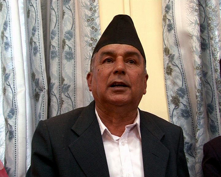 Nepali Leader